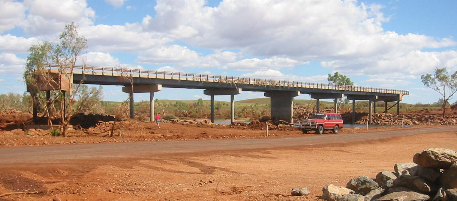 Maitland River bridge on 14 April 2004 in the Pilbara region of Western Australia following Cyclone Monty (March 1 2004). Picture taken by Ian Peters.